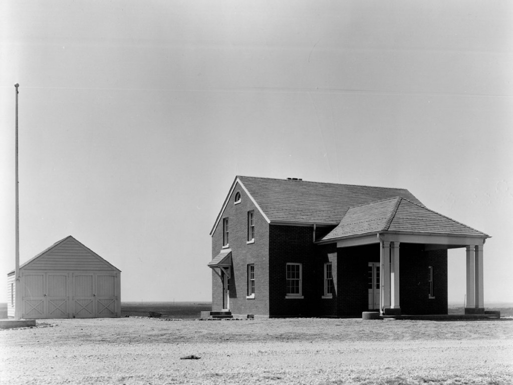 The US Border Inspection Station at Sherwood, ND shortly after its construction in 1937 Other information Current physical location: National Archives: Record Group 121-BS: Records of the Public Buildings Service: Completion views of federal buildings (prints) alphabetically by state and thereunder by city, to 1966; Box 55.